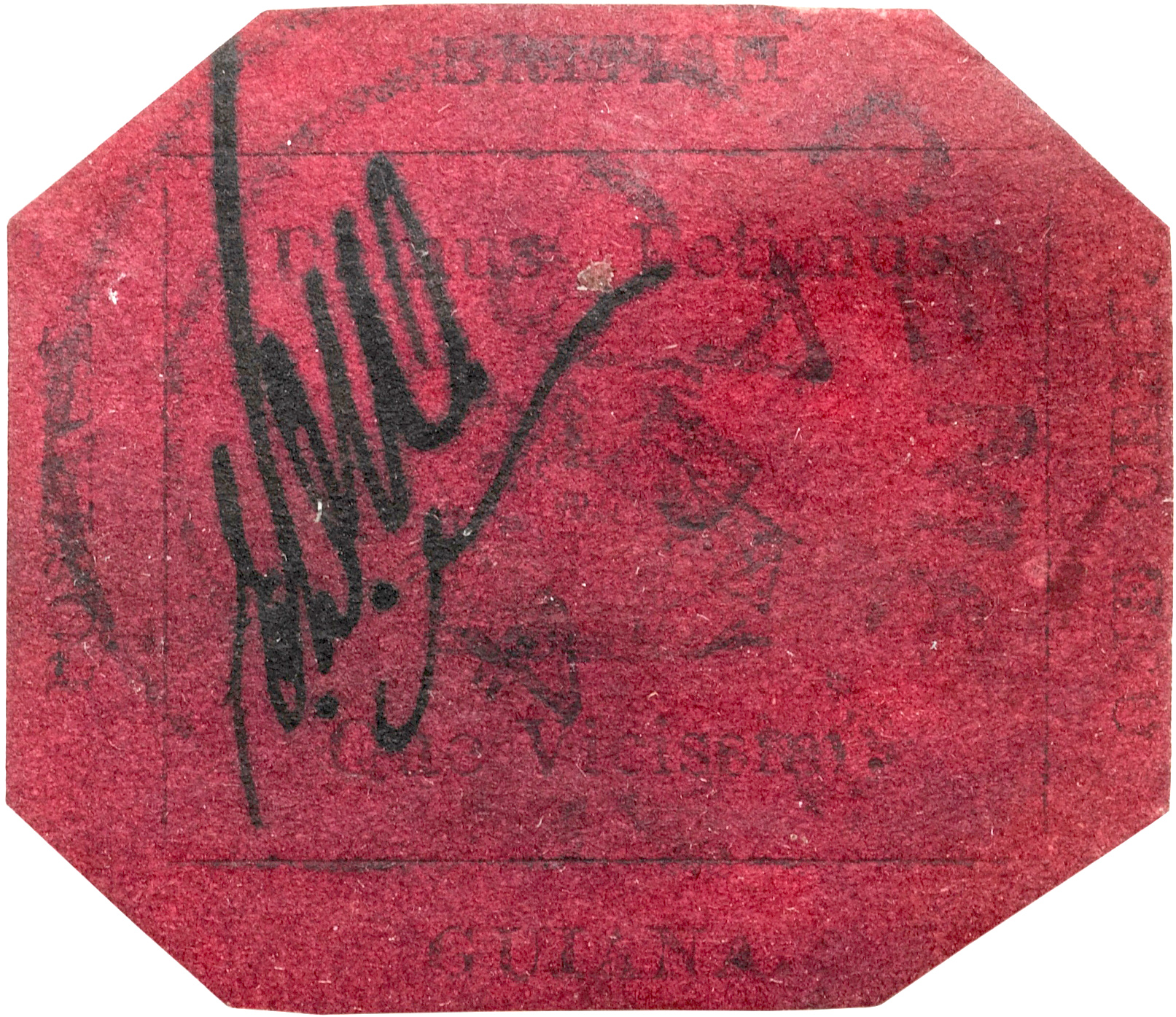 This is an image of a British Guiana stamp issued in 1856